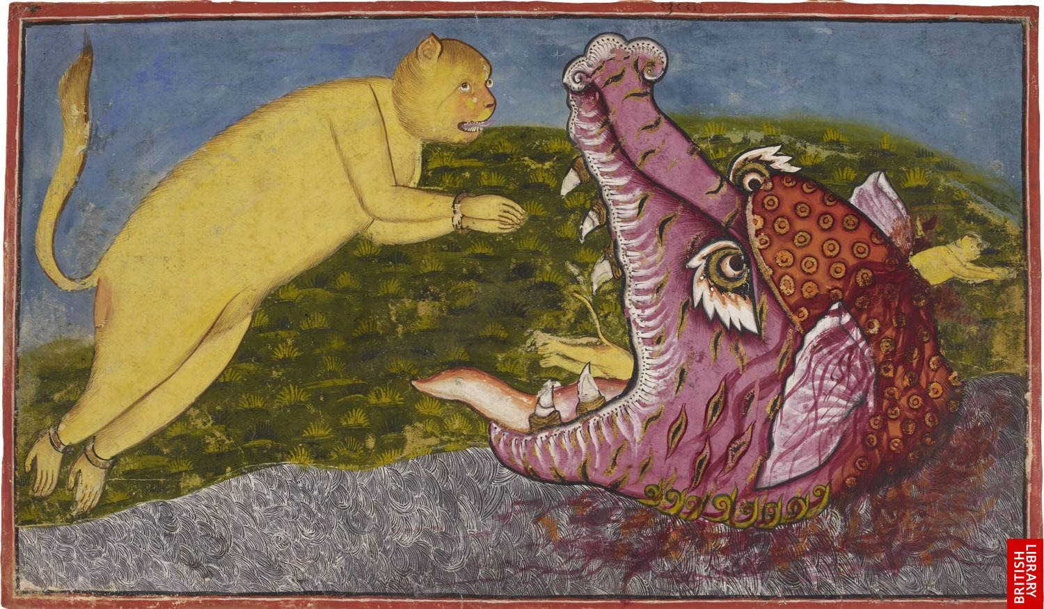 "The great monkey Hanuman has arrived on the shores of the southern ocean. His father was the god of wind, so he has special powers. Undismayed by the width of the ocean, he has swelled himself to an immense size and from the mountain Mahendra has launched himself across the ocean to the island kingdom of Lanka. The mother-of-serpents Surasa who dwells at the bottom of the ocean, has been pressed by the gods to test Hanuman. She has turned herself into a great sea monster with mighty fanged jaws. No matter how wide she expands her jaws, Hanuman matches them in size: he finally sails into them, reduces his size and emerges through her ear. "